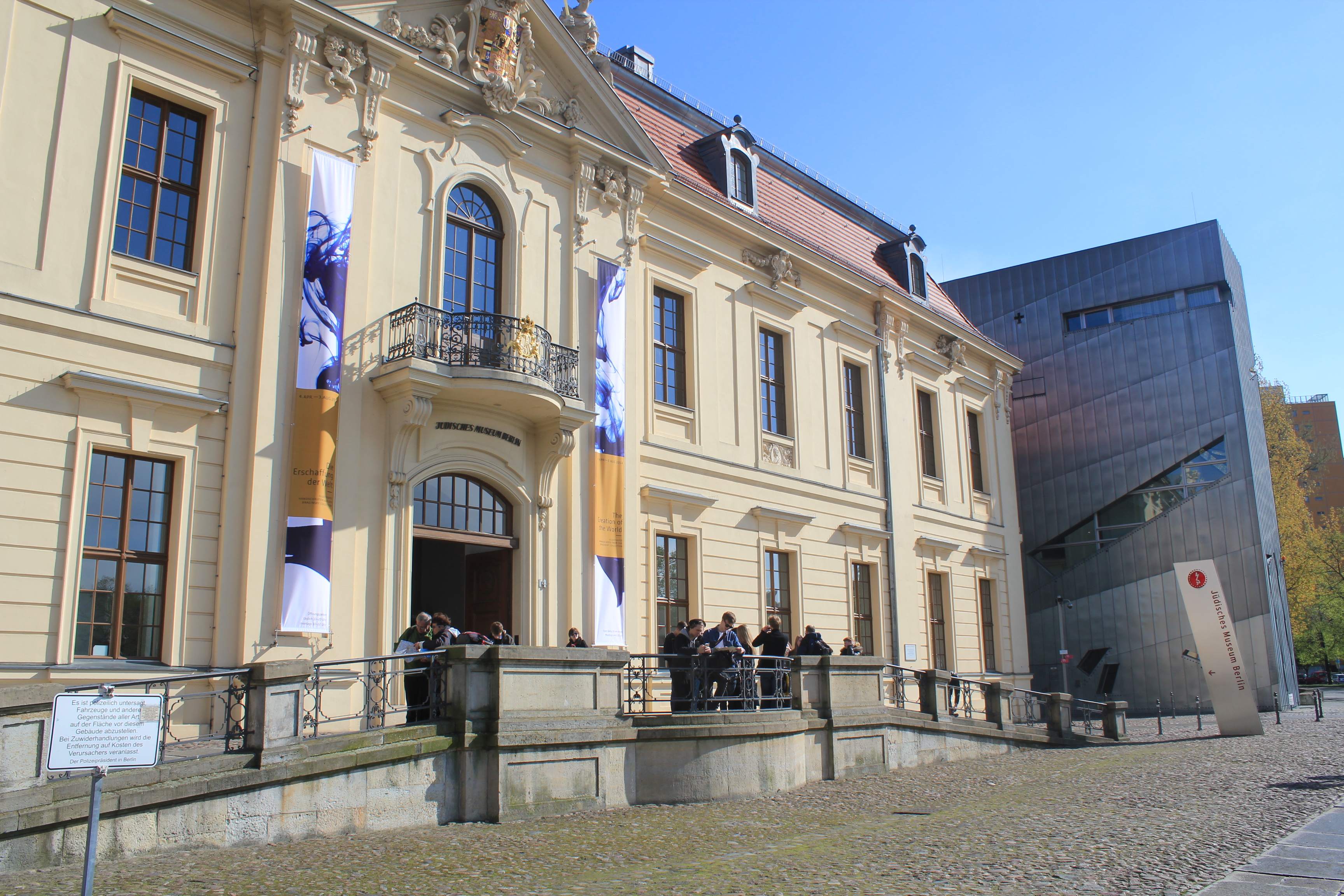 The entrance of Jewish Museum Berlin.